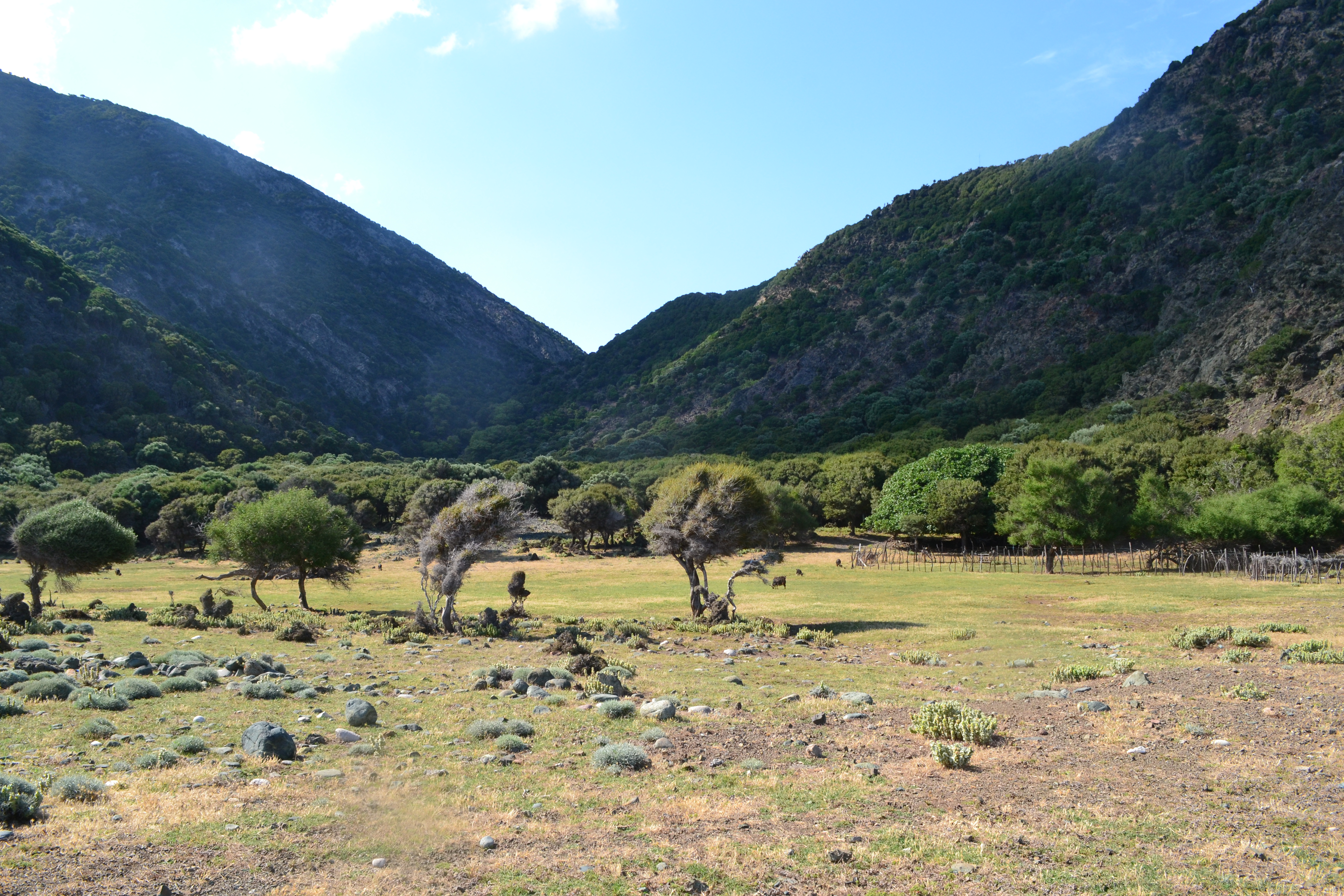 This is a photography of Natura 2000 protected area with ID GR1110004